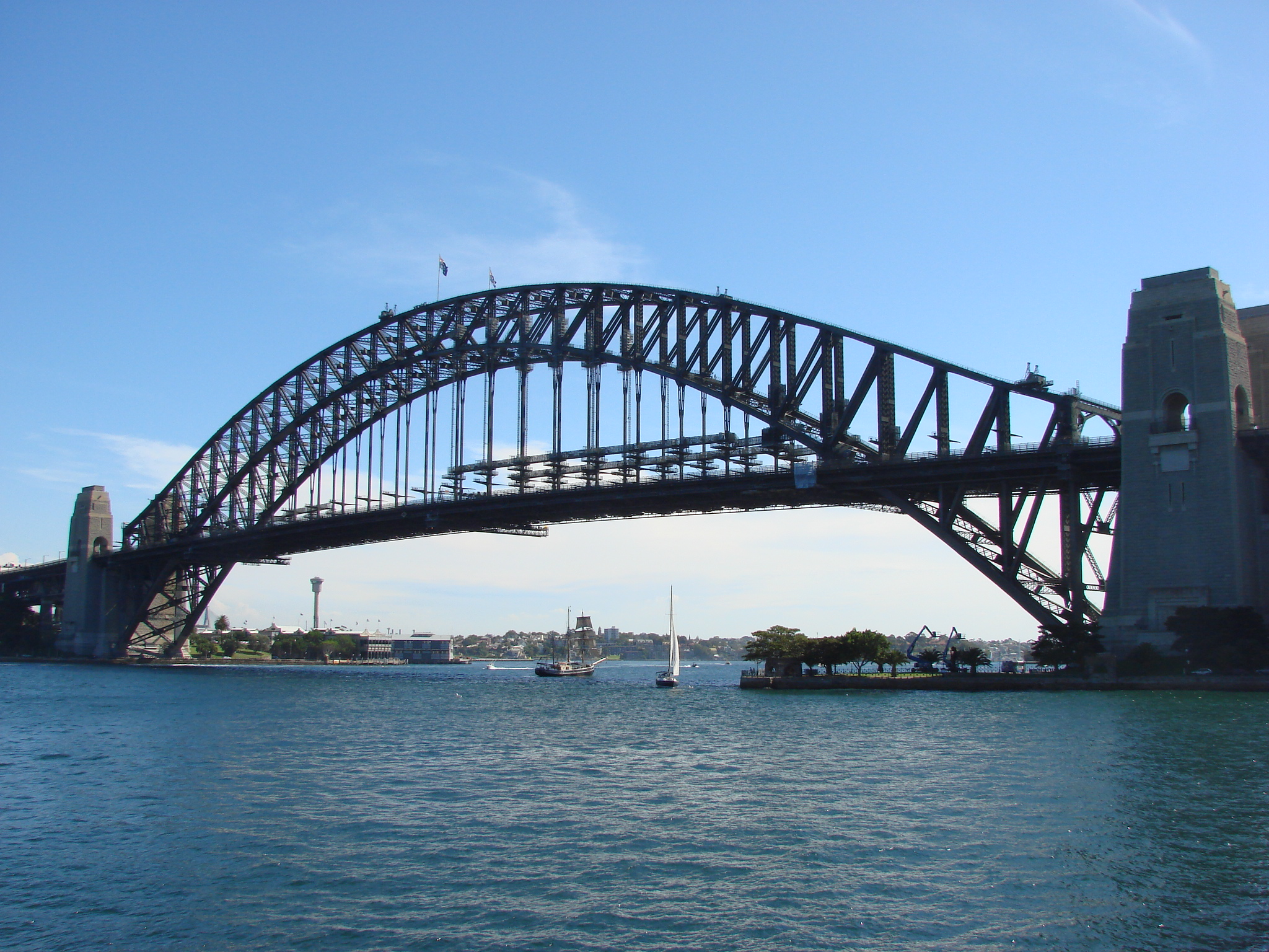 Harbour Bridge